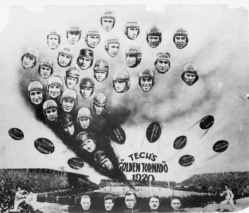 Georgia Tech's football team depicted as the "Golden Tornado". Published in the 1921 BluePrint